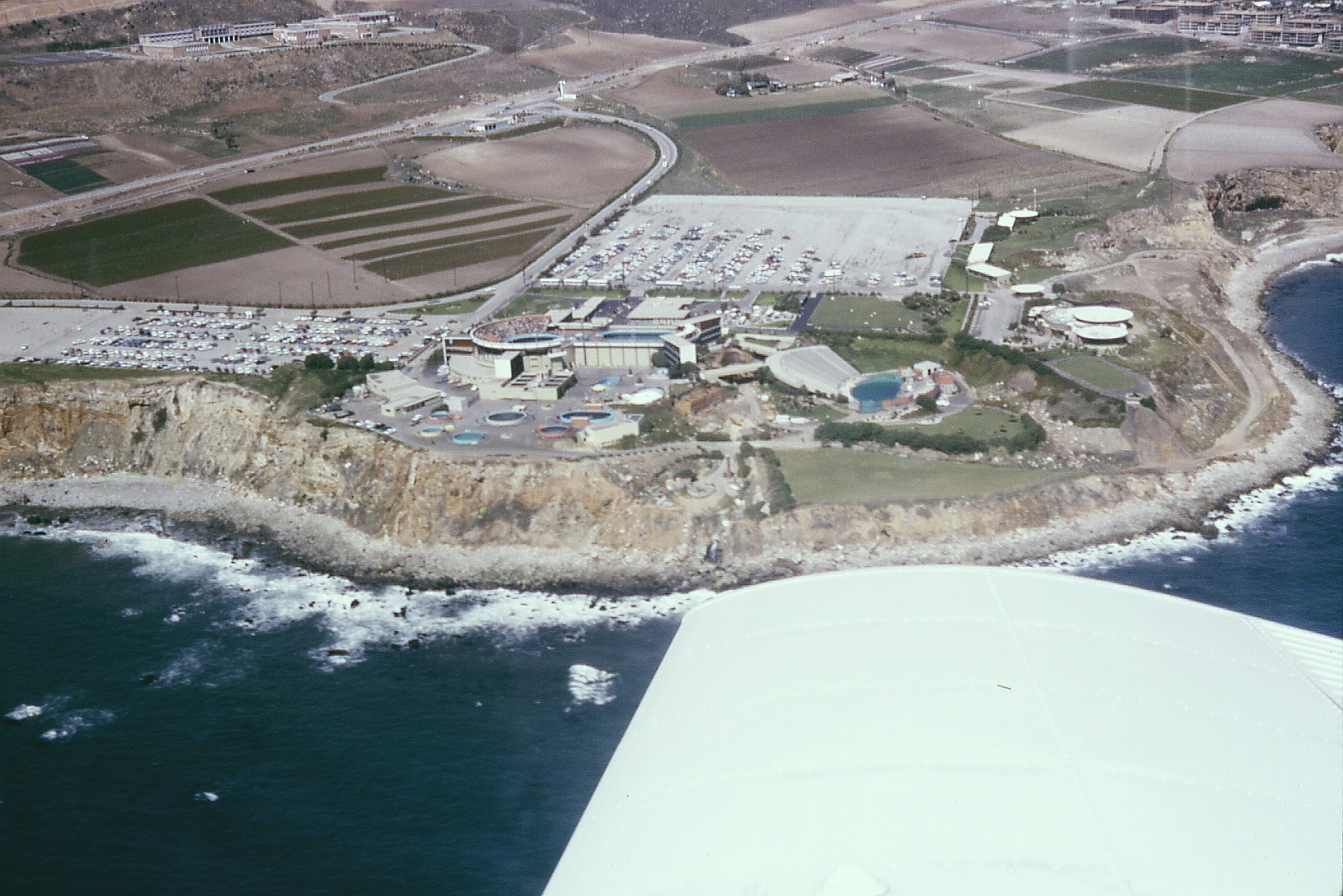 Marineland of the Pacific (1965) — formerly on the Palos Verdes Peninsula, in Los Angeles County, California. Taken with a 35mm Exakta VX, using Ektachrome slide film.